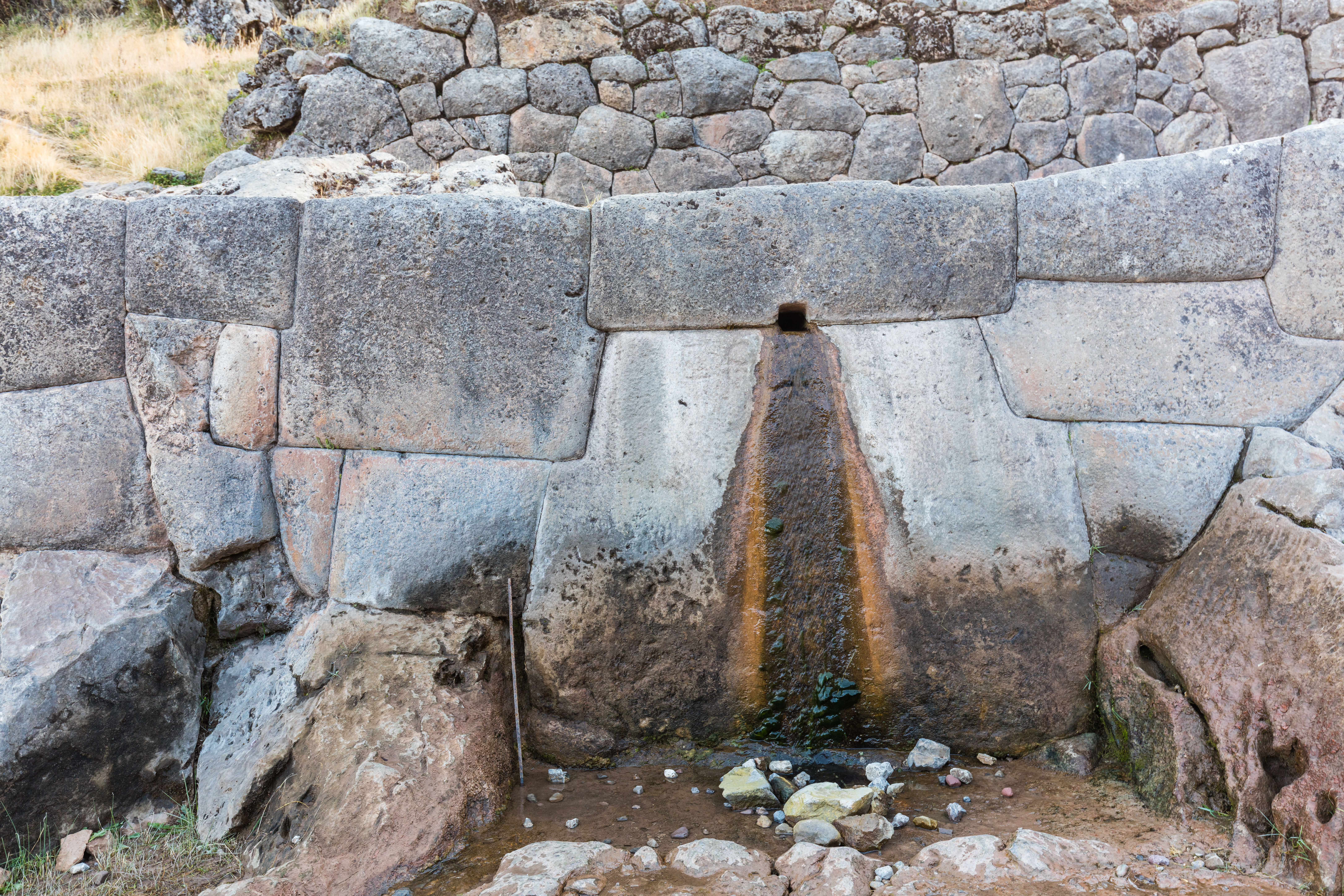 Tambomachay, Cuzco, Peru